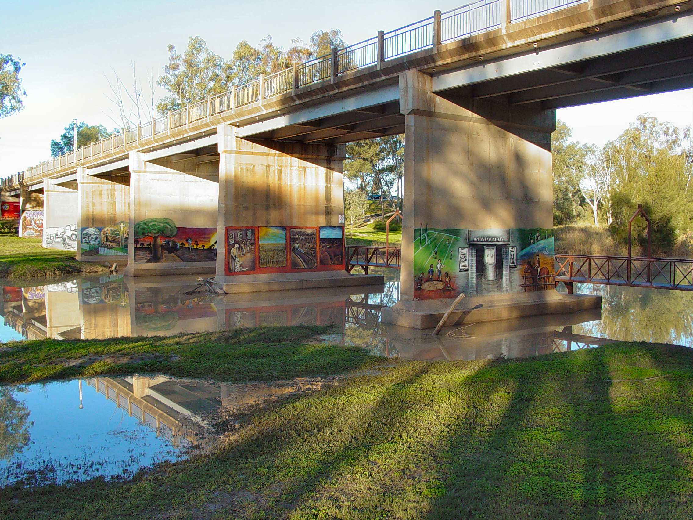 Photo taken and suppied by Brian Voon Yee Yap. The bridge where the Warrego Higheway crosses the Maranoa River at Mitchell.